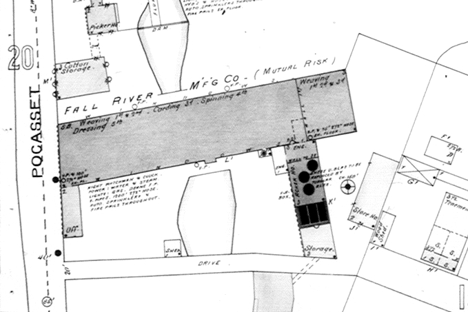 Map of Fall River Manufacturing Company, 1893. Pocasset Street, Fall River, Massachusetts - by Sanborn Fire Map company.